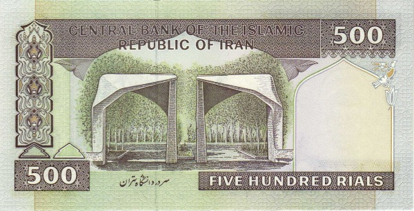 500 IRR banknote (1981 issue)